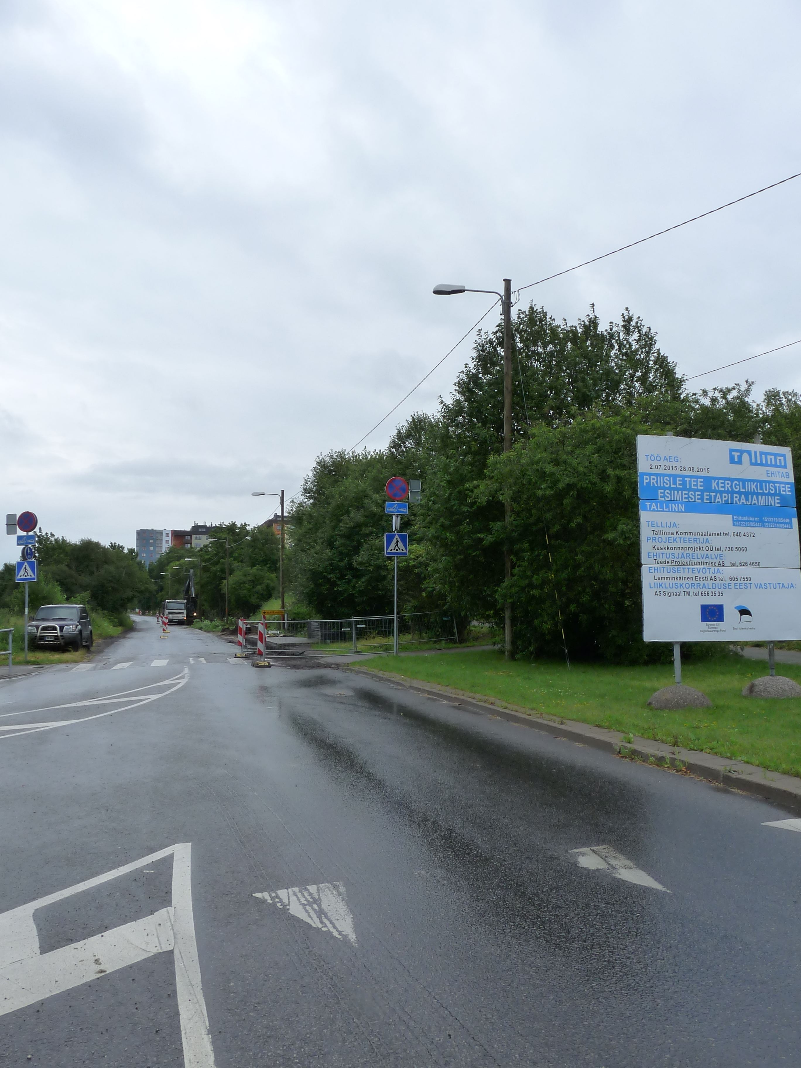 Cycle road construction near Priisle street in Tallinn, Estonia